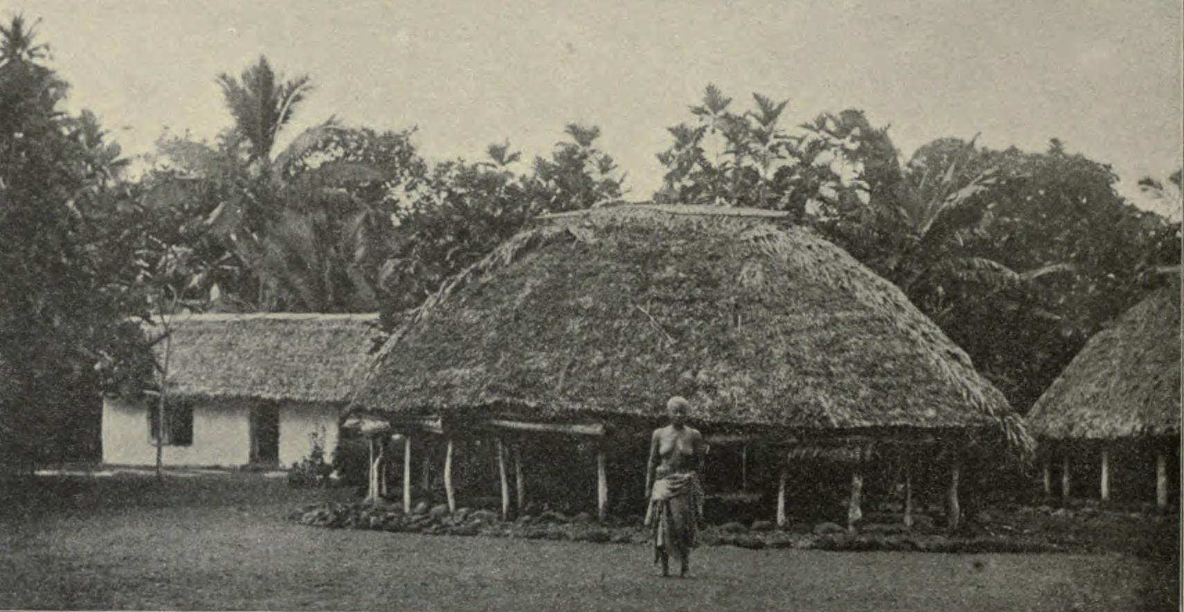 Samoan Palace, undated.